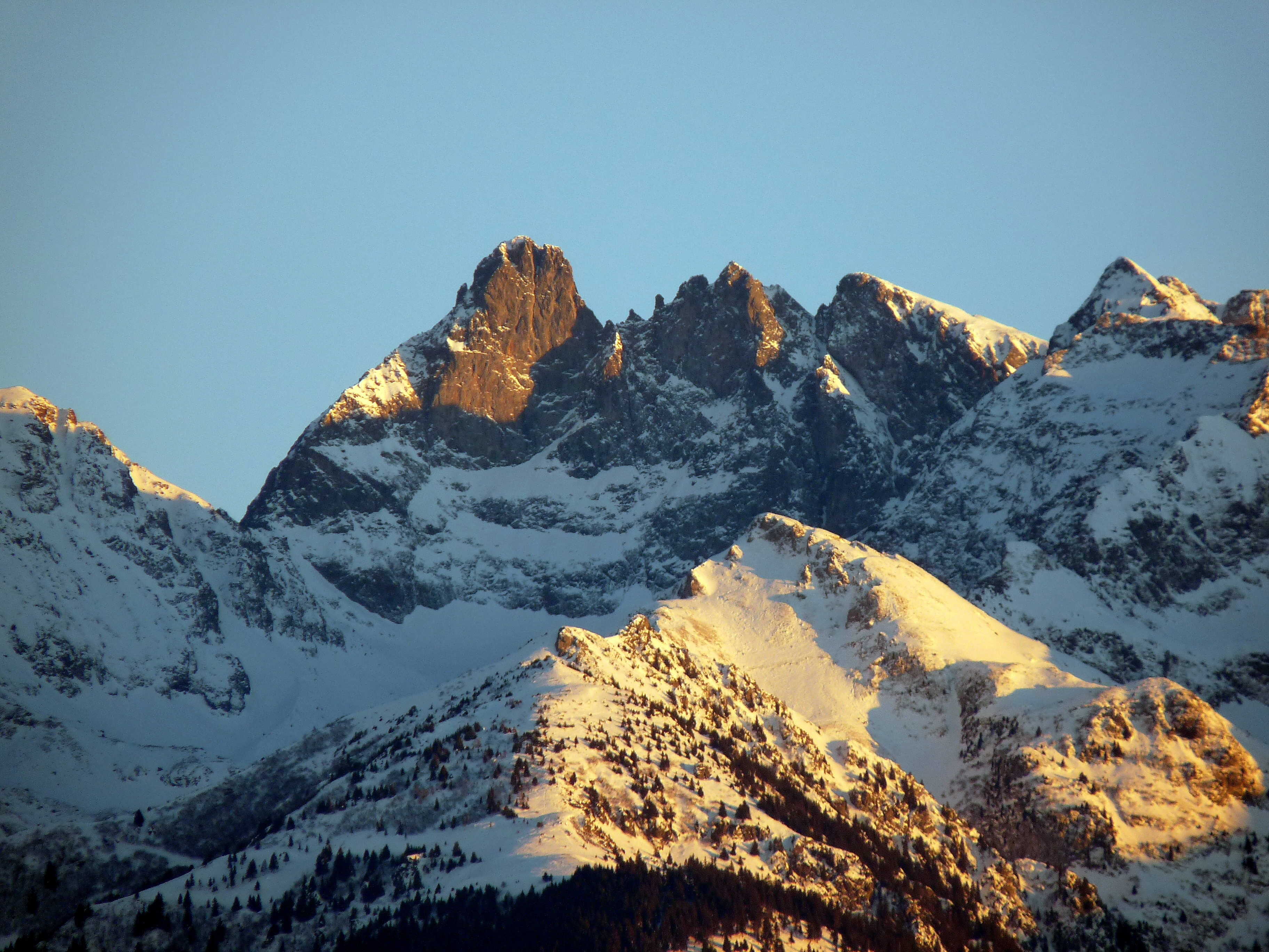 Grand Pic de Belledonne shot from Biviers, across the Grésivaudan valley.